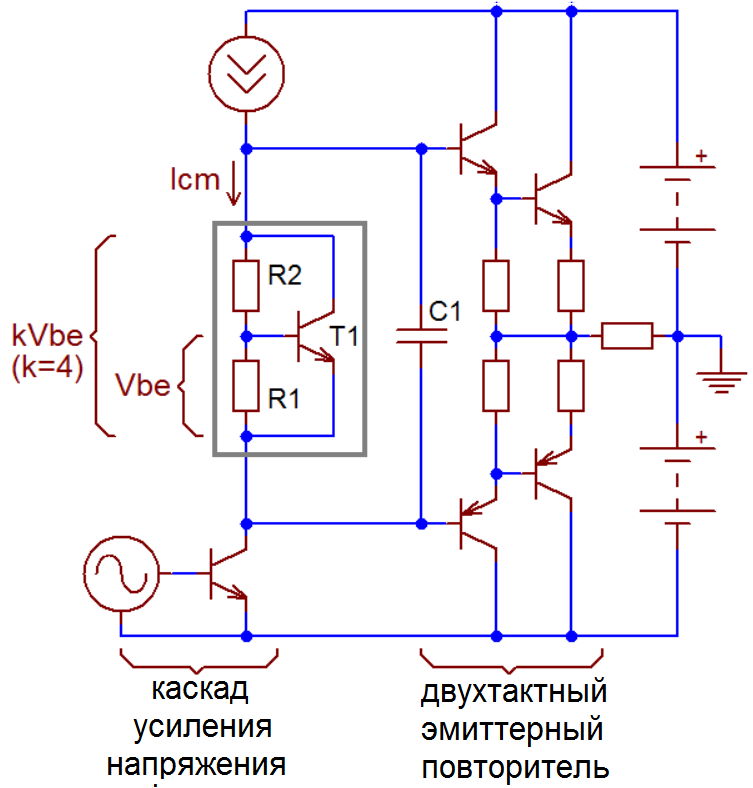 The Vbe cell (gray box) that stabilizes idle current through output stage.